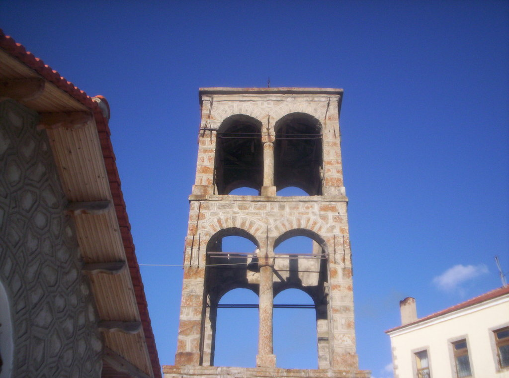 Tower of Church of Pisoderi, Aegean Macedonia, Greece